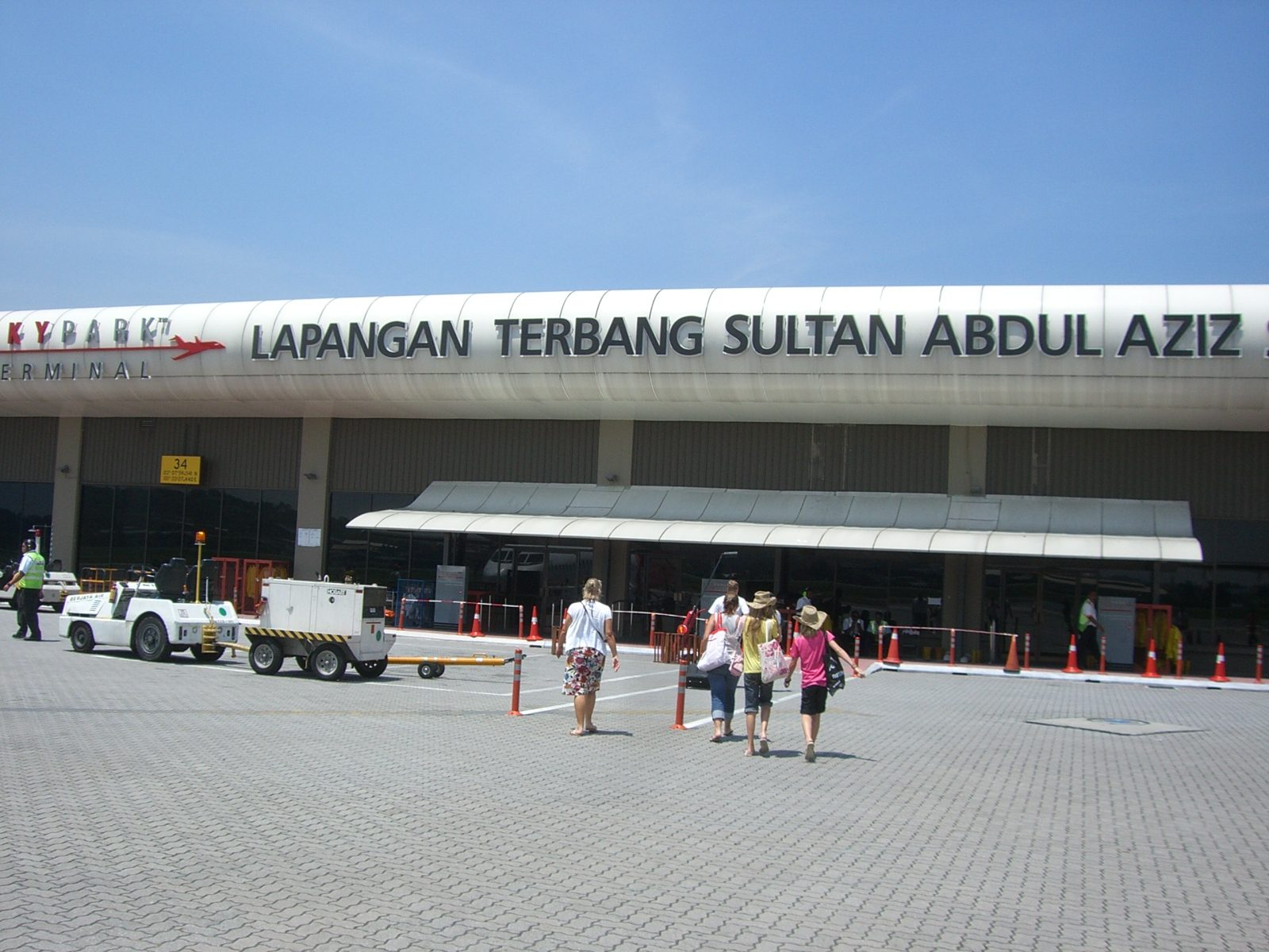 A view of Sultan Abdul Aziz Shah Airport from the tarmac.